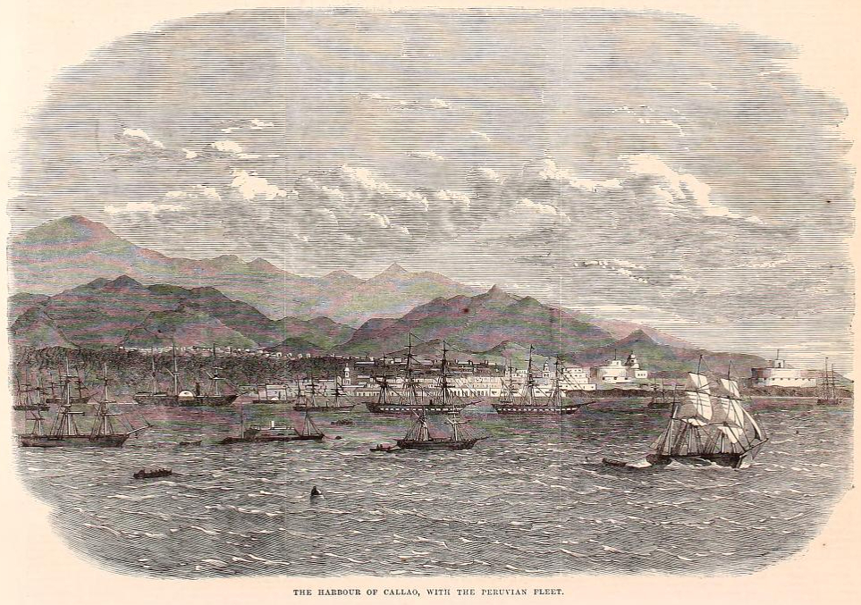 Description: The harbour of Callao Subject: The peruvian fleet at anchor City: Callao Country : Peru Published by : The Illustrated London News Date : January, 28th, 1864 Photographer: © Manuel González Olaechea y Franco Shot date : November, 5th, 2005